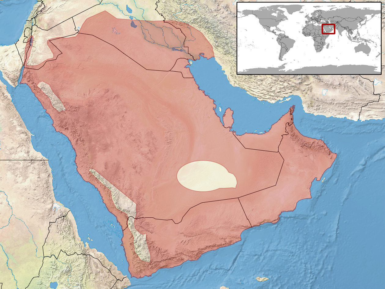 geographic distribution of Cerastes gasperettii (Native: Iran, Islamic Republic of; Iraq; Israel; Jordan; Kuwait; Oman; Qatar; Saudi Arabia; United Arab Emirates; Yemen)